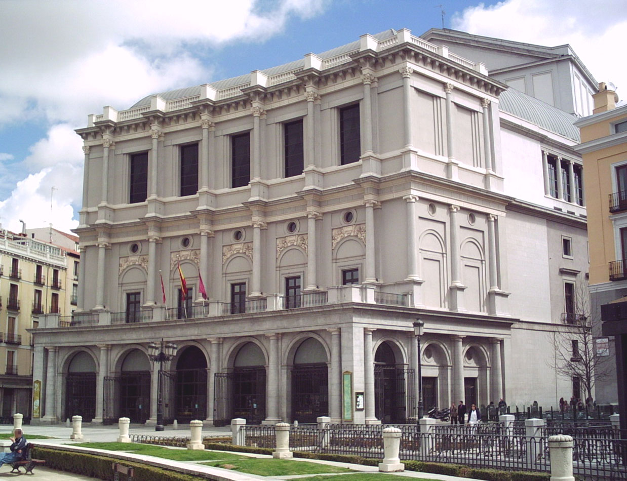 View of Teatro Real (opera house and concert hall) in Madrid (Spain) from the south-west angle.